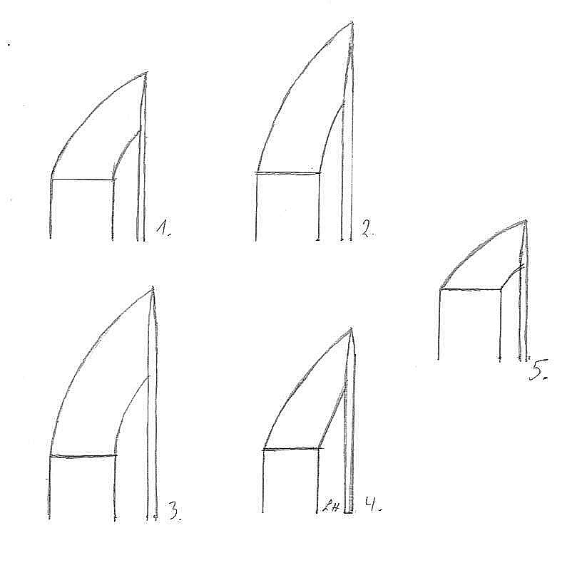 Types of the Kissaki at japanese swords